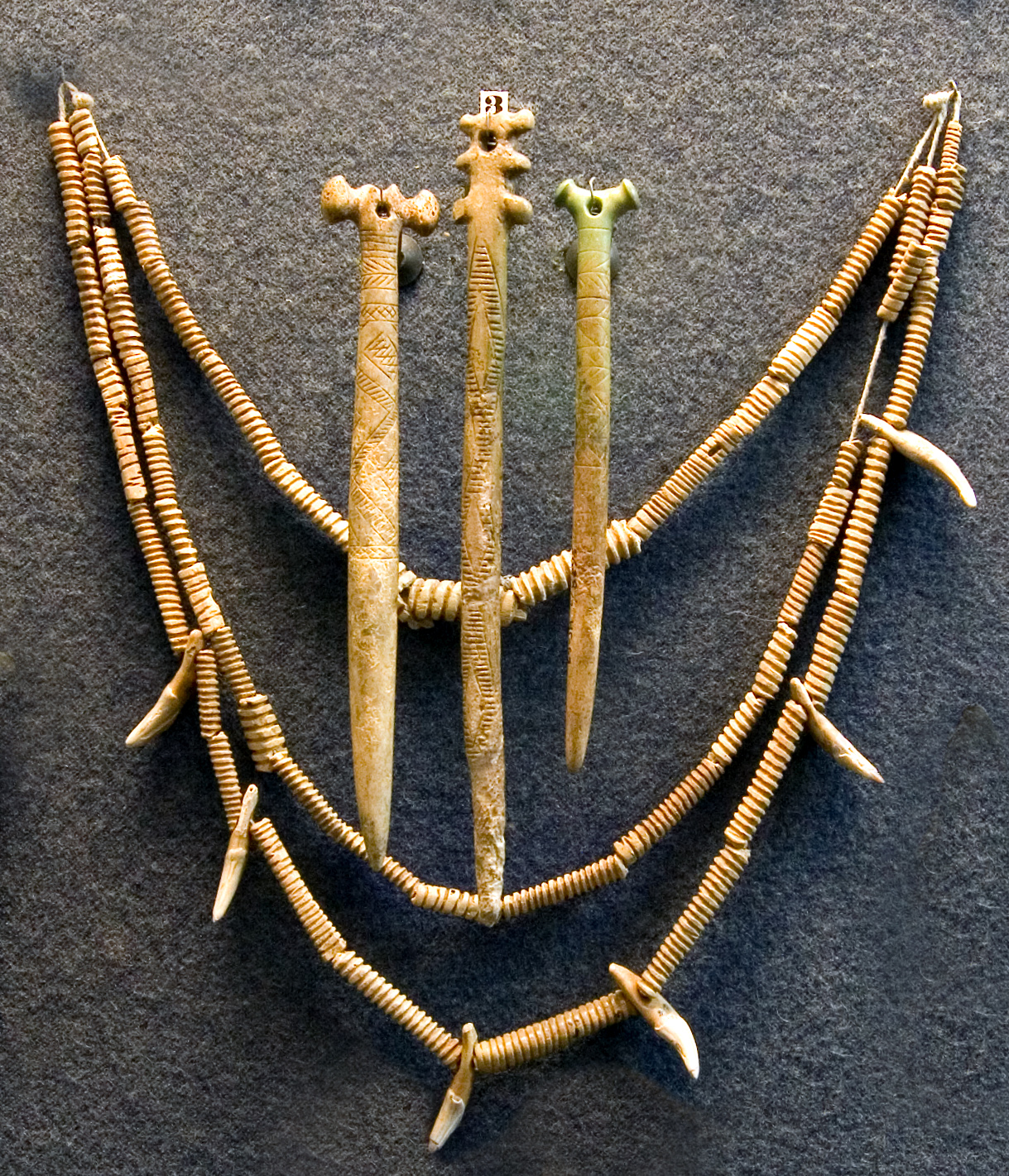 Ornaments and items of adornment in bone and canine from the collection of the Hermitage Museum in St. Petersburg in Russia. Stage:Late copper age (Yamna culture)